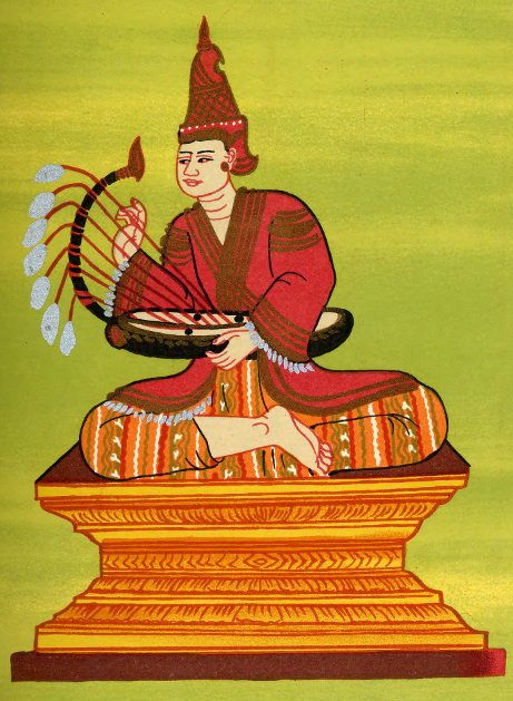 Mintha Maung Shin nat (spirit), th in the official pantheon of Burmese nats